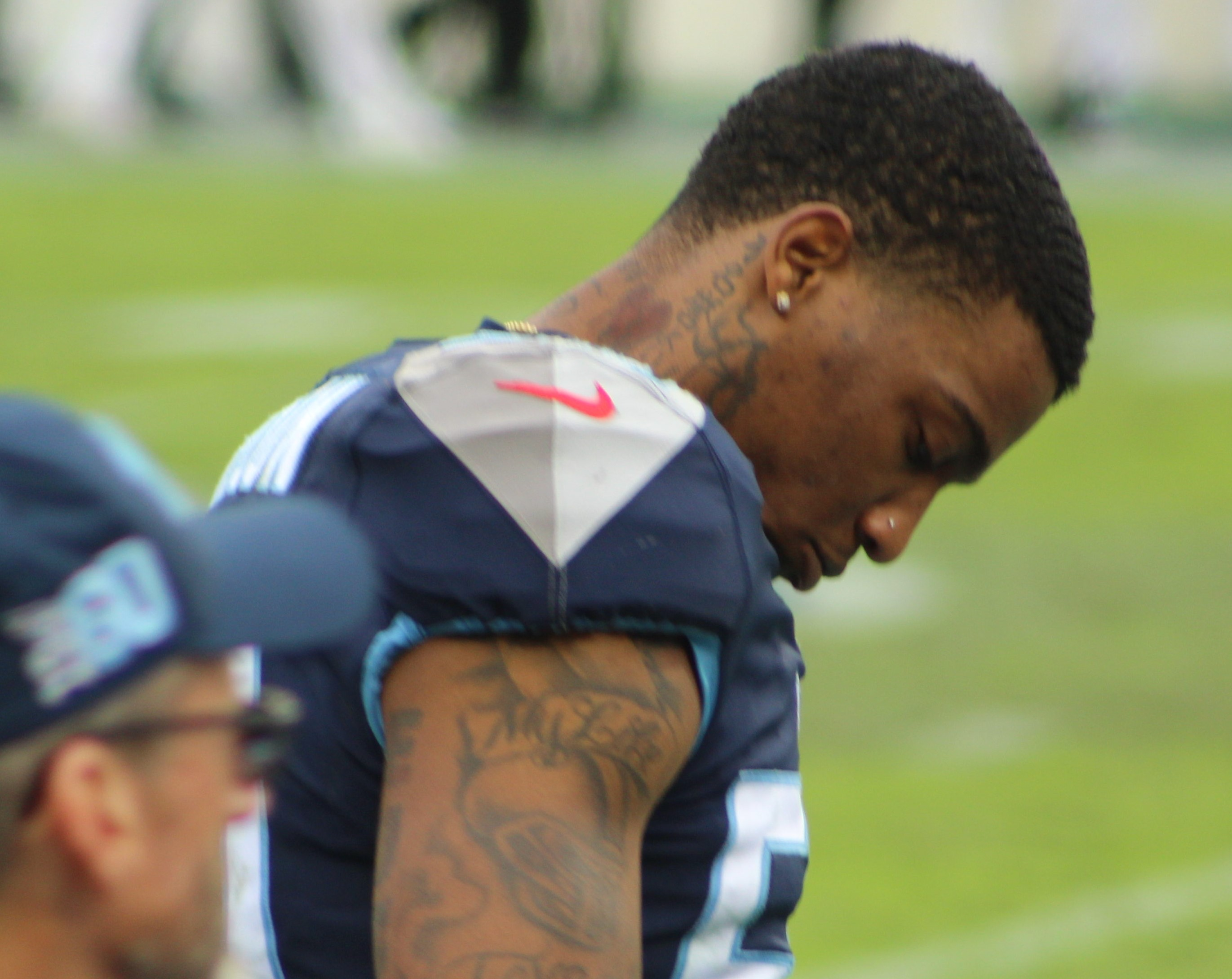 Roberson with the Titans on December 22, 2019